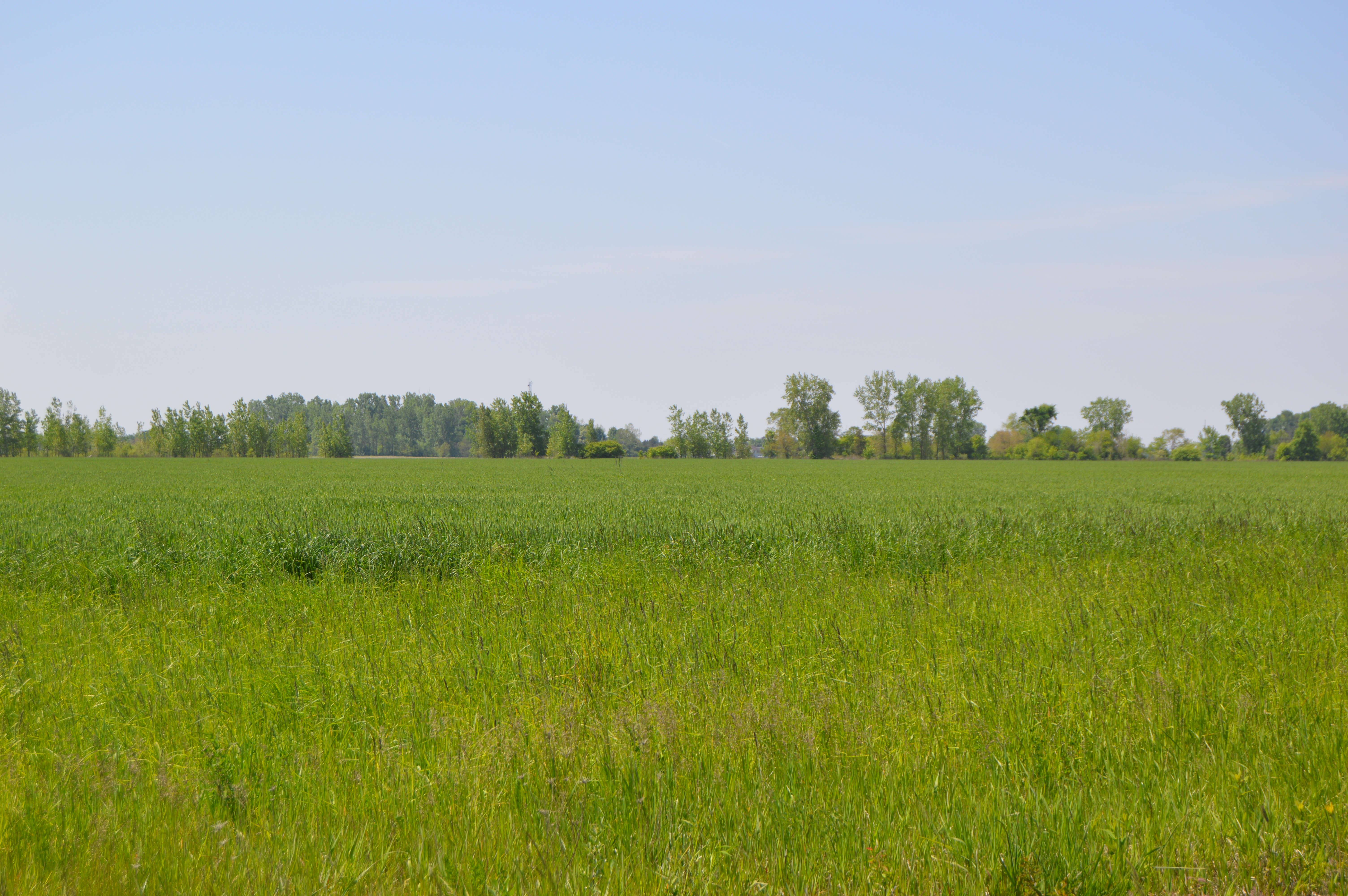 Wheat fields on the southern side of Union Hill Road just west of Old U.S. Route 25 in the northeastern corner of Plain Township, Wood County, Ohio, United States.